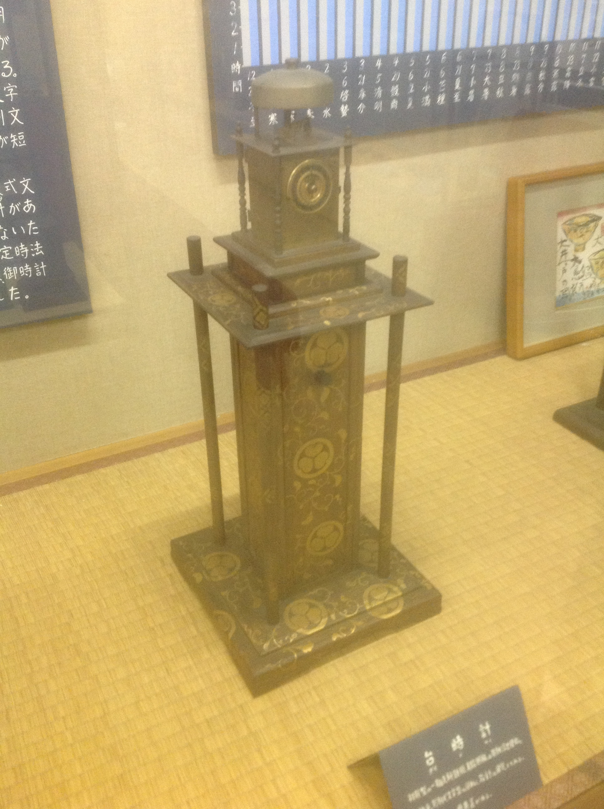 Western-style clock mounted on a stand decorated with the mon of the Tokugawa clan, Daimyo Clock Museum, Tokyo